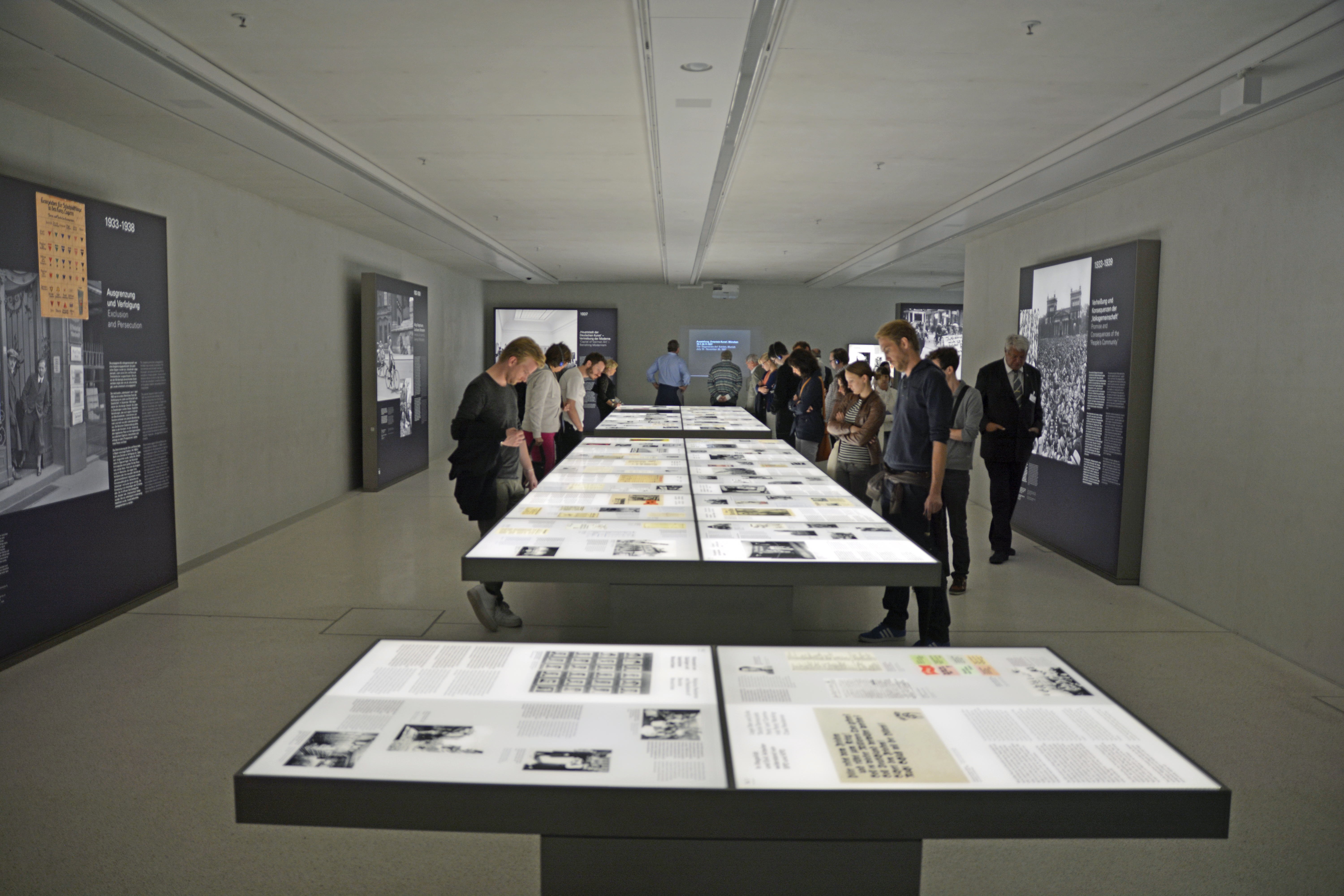 NS-Center of Documentationszentrum Munich